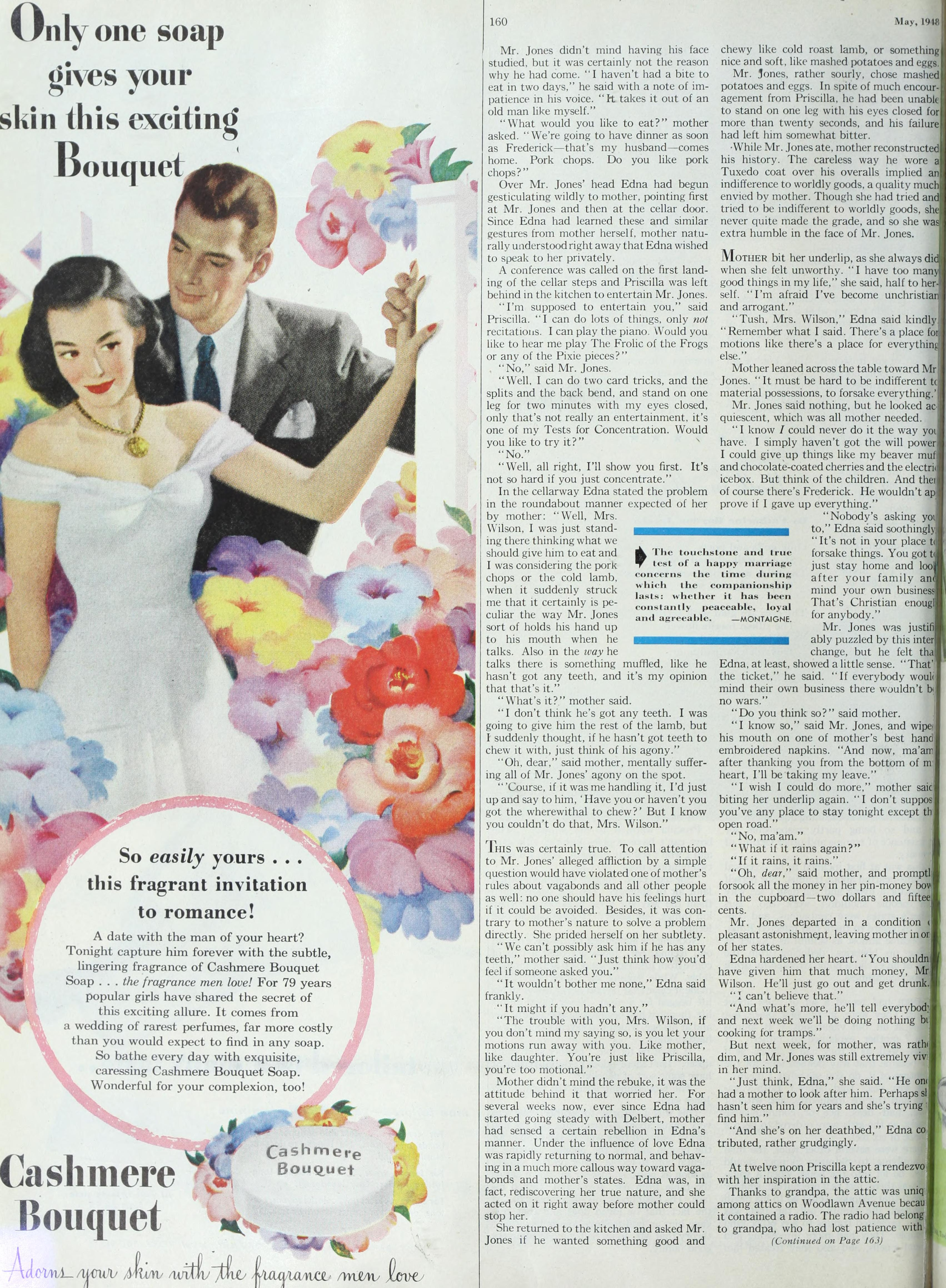 Cashmere Bouquet Title: The Ladies' home journal Year: 1889 (1880s) Authors: Wyeth, N. C. (Newell Convers), 1882-1945 Subjects: Women's periodicals Janice Bluestein Longone Culinary Archive Publisher: Philadelphia : (s.n.) Text Appearing Before Image: LADY BERKLEIGH • 1107 BROADWAY, NEW YORK 10, N. Y Only one soap gives yourskin this exciting Jjouquet Text Appearing After Image: A date with the man of your heart?Tonight capture him forever with the subtle, lingering fragrance of Cashmere Bouquet Soap . . . the fragrance men love! For 79 years popular girls have shared the secret of this exciting allure. It comes from a wedding of rarest perfumes, far more costly than you would expect to find in any soap. So bathe every day with exquisite, caressing Cashmere Bouquet Soap Wonderful for your complexion, too! .1 ^